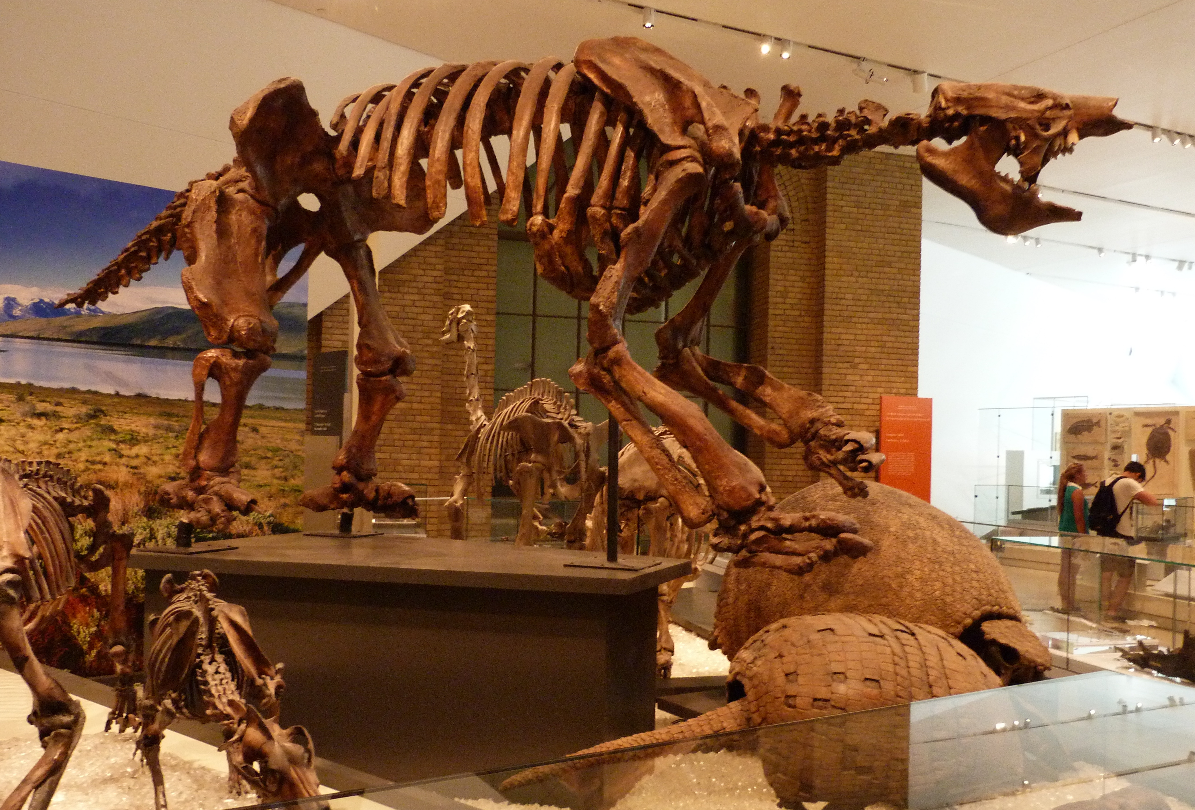 Giant ground sloth - (replica cast) of a 100,000 year old skeleton found Daytona Beach, Florida